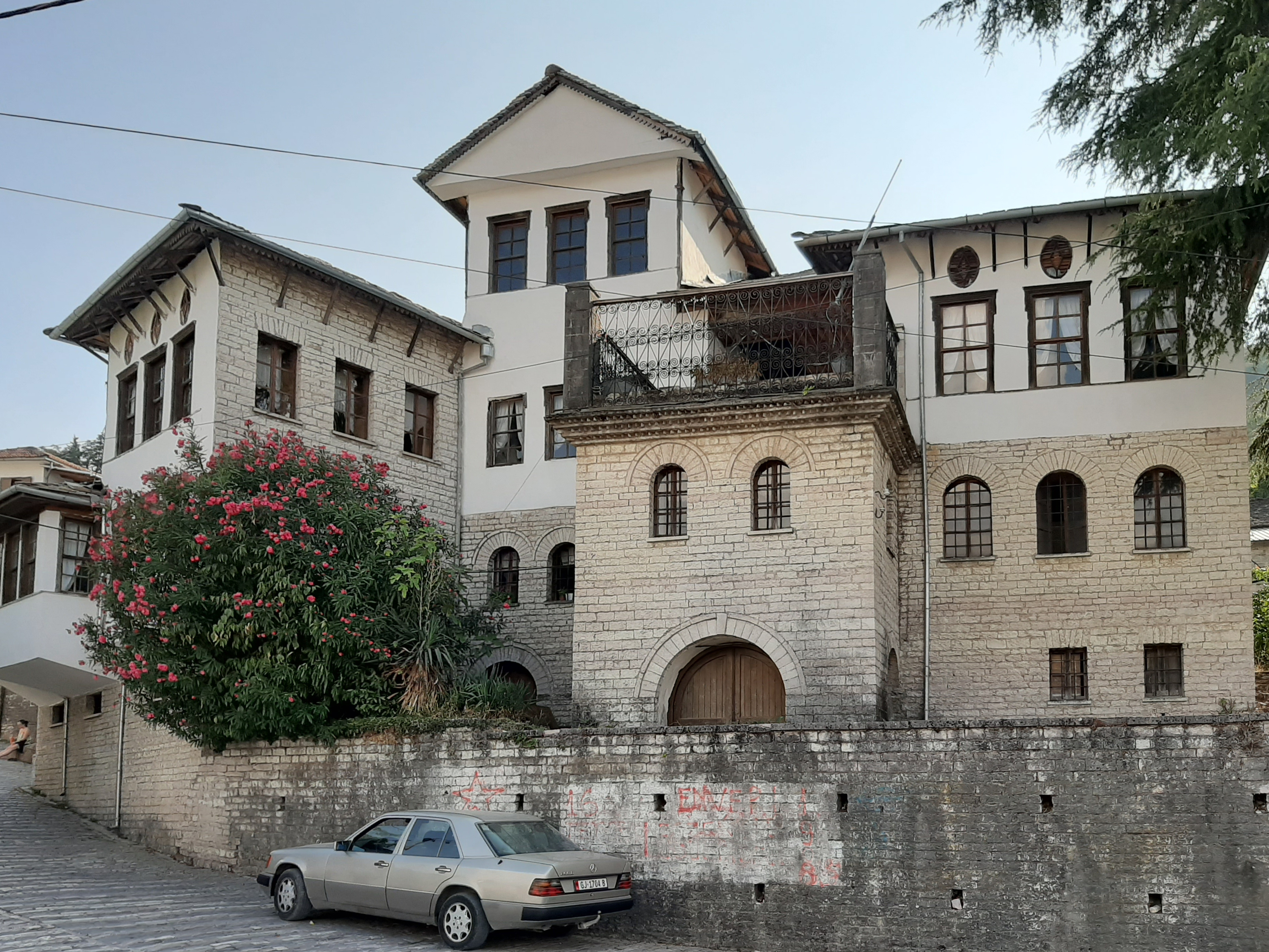 Photo realized during the expedition tour for the project The Albanian house